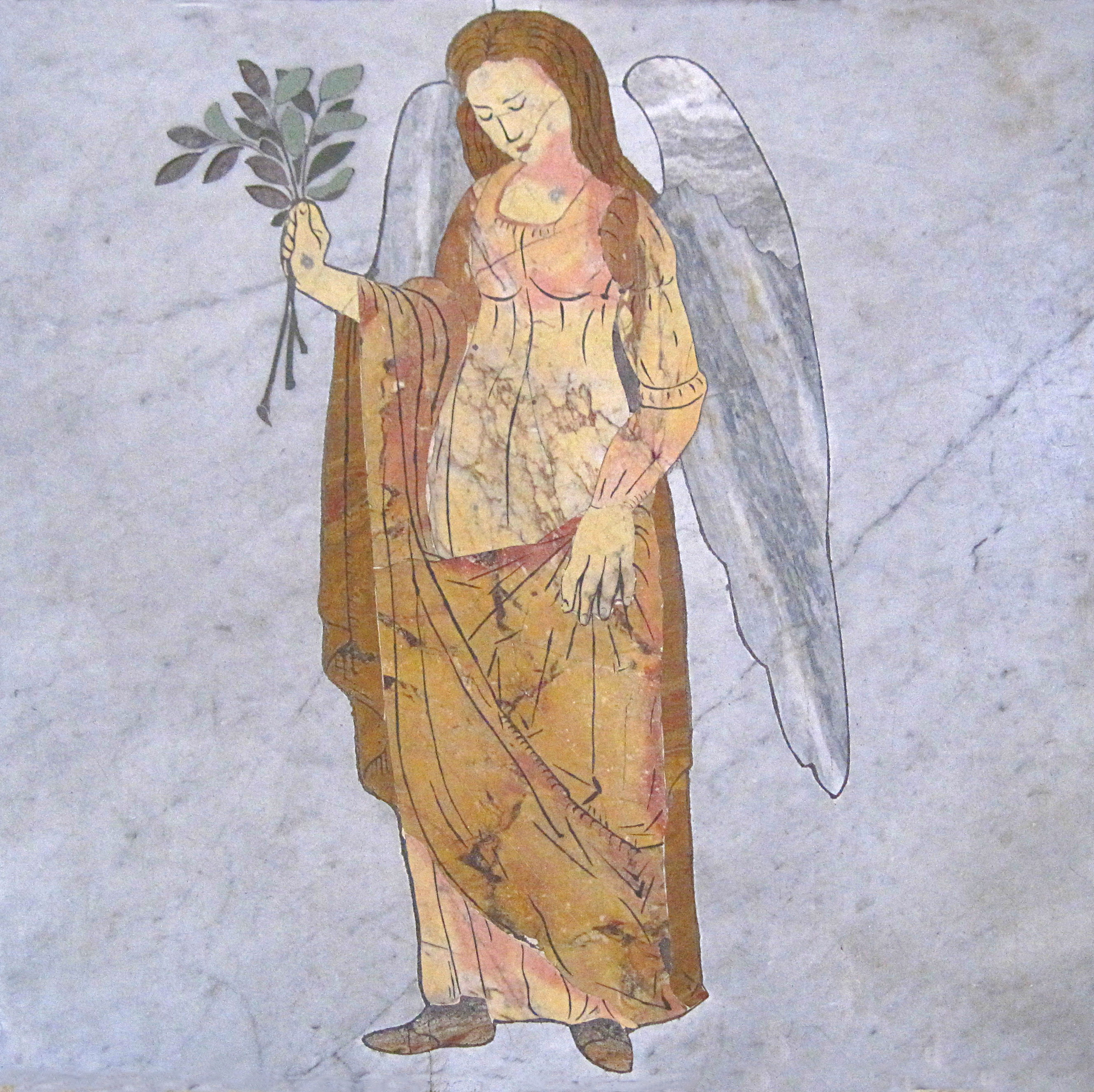 Zodiacal sign of the Virgo on panel of white marble inlaid with colored marble (opus sectile) adorning one side of the Meridian solar line of Basilica Santa Maria degli Angeli e dei Martiri in Rome built by Francesco Bianchini (1702).